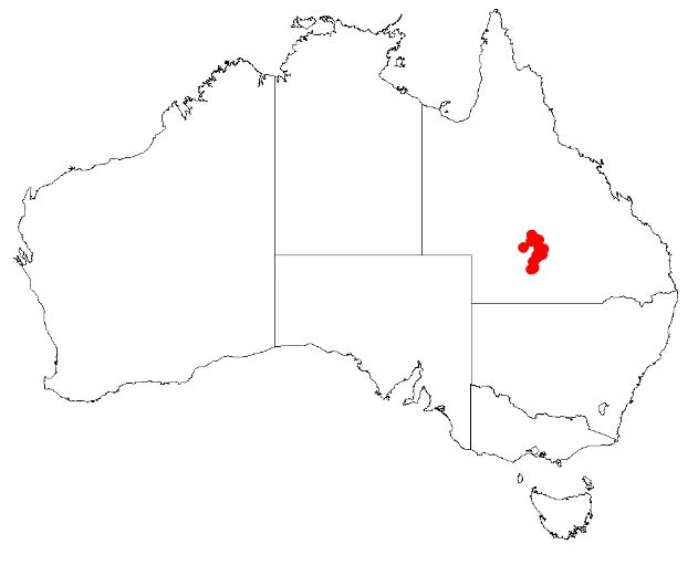 Hakea maconochieana Occurrence data downloaded from AVH on 22 November 2018 using